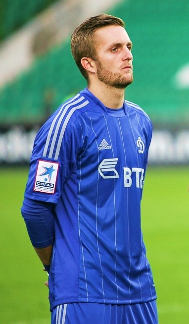 Jakob Jantscher